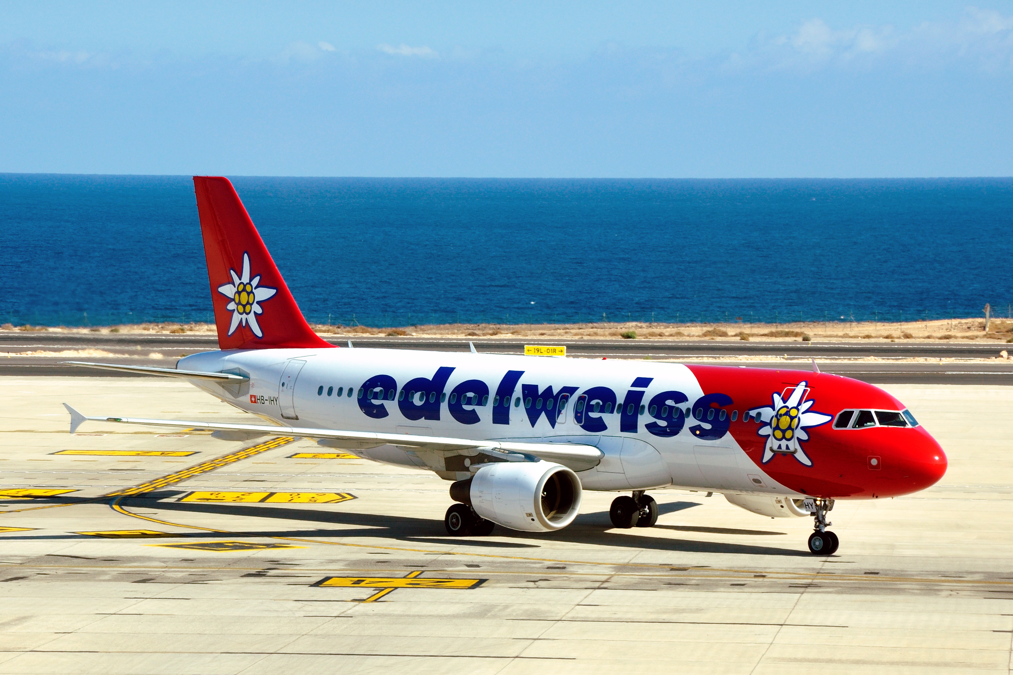 Spain, Edelweiss' Airbus A320 at the airport of Fuerteventura